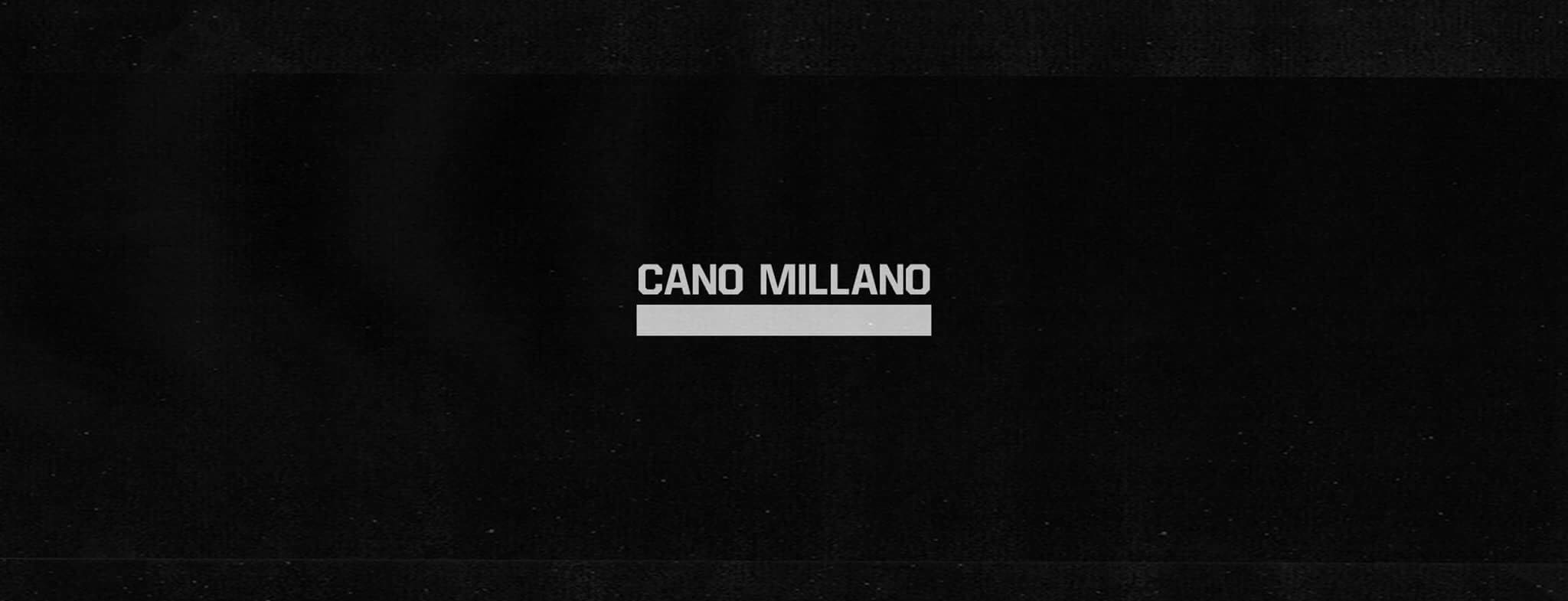 Logo von Cano Millano